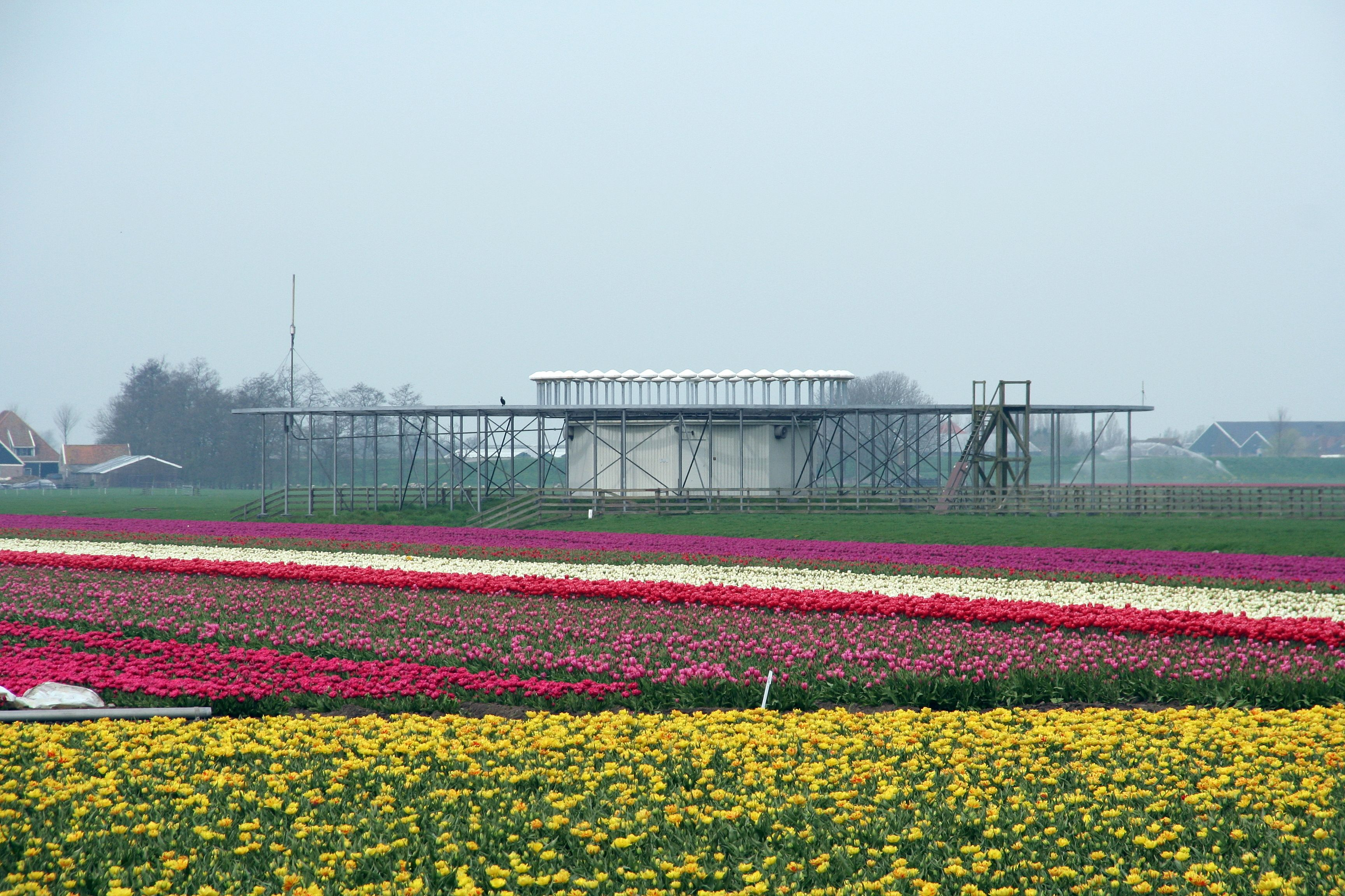 VOR beacon SPY near Spijkerboor, The Netherlands